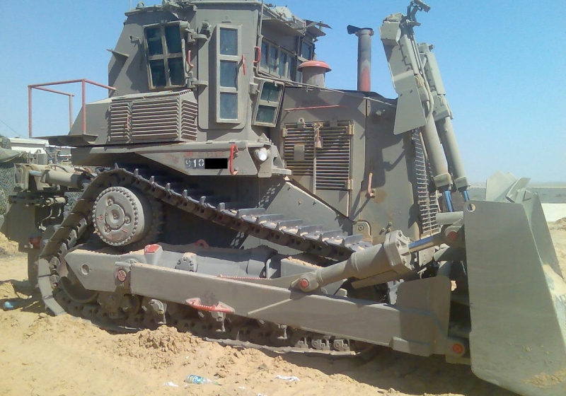 D9N "Raam HaShachar" remote-controlled bulldozer